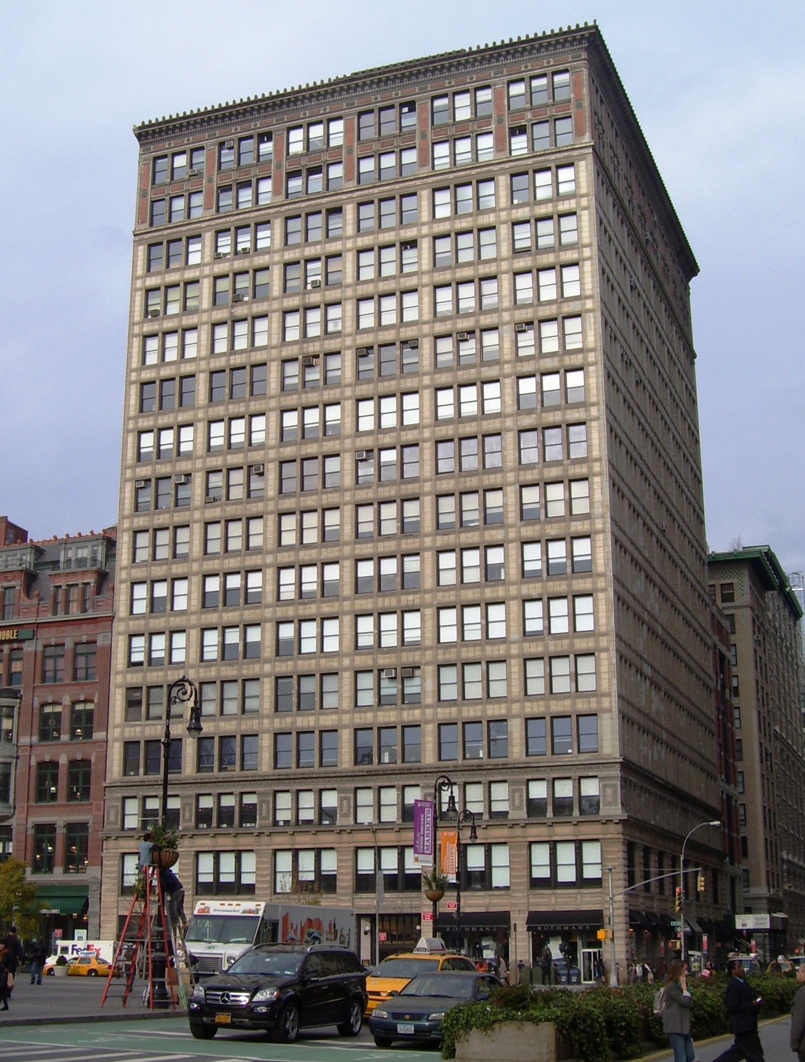 The Everett Building, at 200 Park Avenue South at East 17th Street, on Union Square in Manhattan, New York City, was built in 1908 and designed by Goldwin Starrett, who worked for 4 years for Daniel Burnham. The building is a NYC landmark, designated in 1988. {Sources: Guide to NYC Landmarks (4th ed.), AIA Guide to NYC (4th ed.))